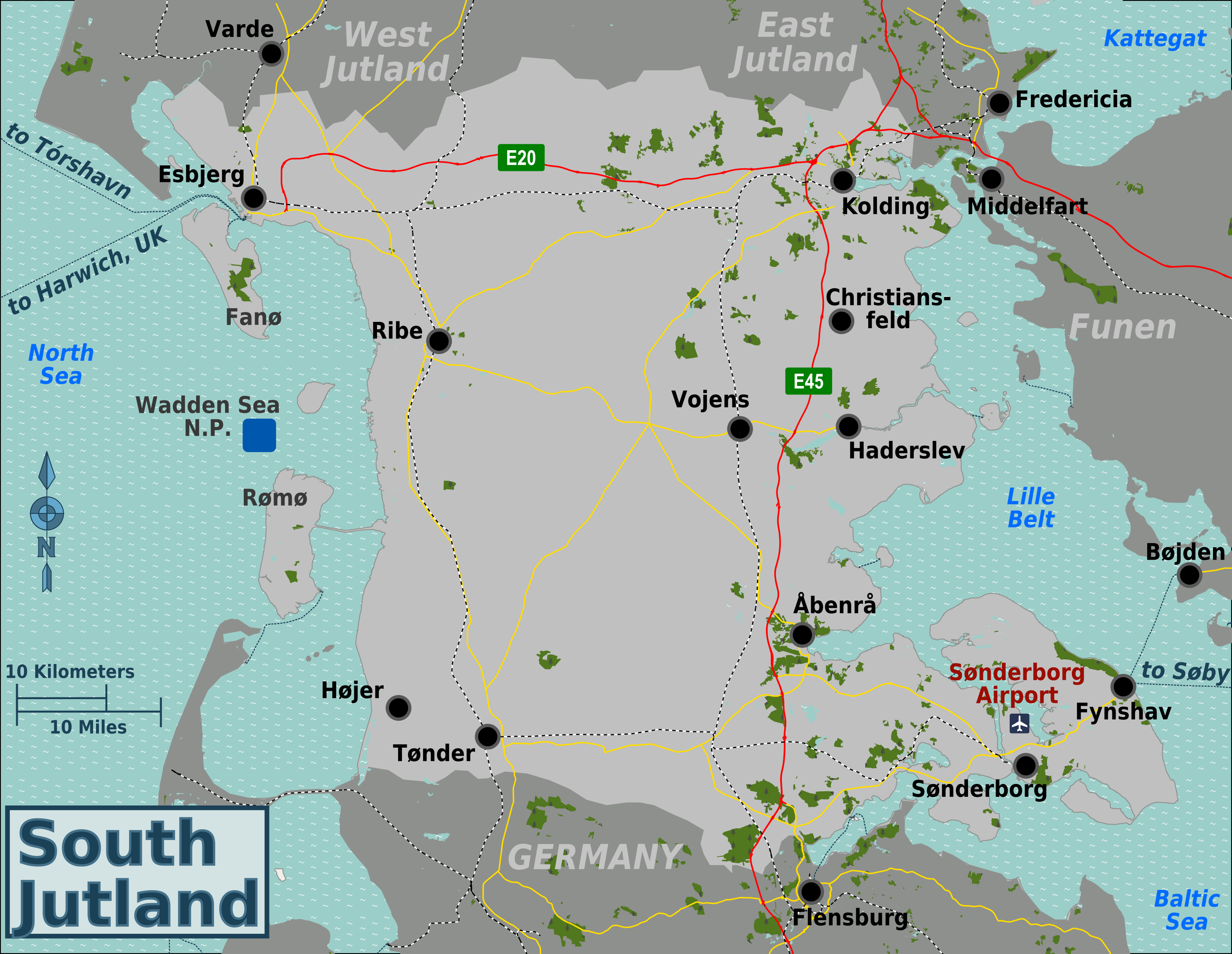 Regional map of South Jutland. Regional map of South Jutland SVG version: :Image:SouthJutland.svg, Jutland Map of: Jutland¤